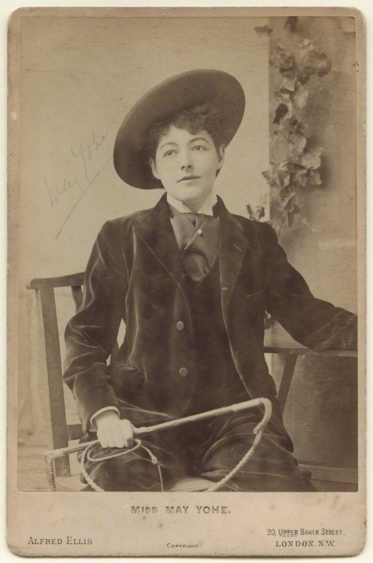 May Yohé (1866-1938) as Dick Whittington in Dandy Dick Whittington (1895)